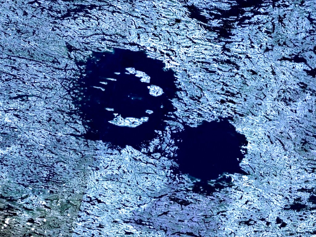 Clearwater Lake is a double meteoric impact crater lake in Quebec, Canada. It is 71 km long and 33 km wide.